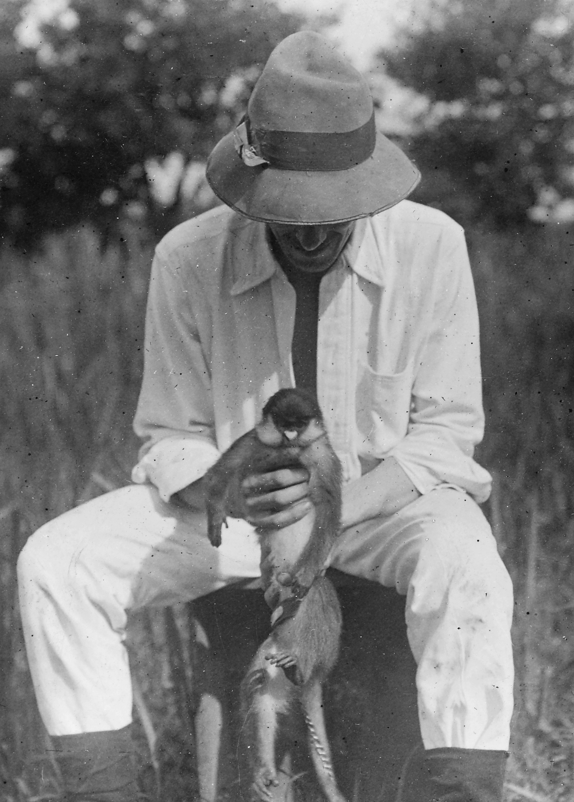 Photograph of JL Todd with an experimental monkey during an expedition to the Congo from Liverpool School of Tropical Medicine, 1903-5. The objectives of the expedition were to continue the work on trypanosomiasis commenced in 1902-3, to study other tropical diseases of men and animals, and to report on the sanitation of European communities in the Congo Free State.